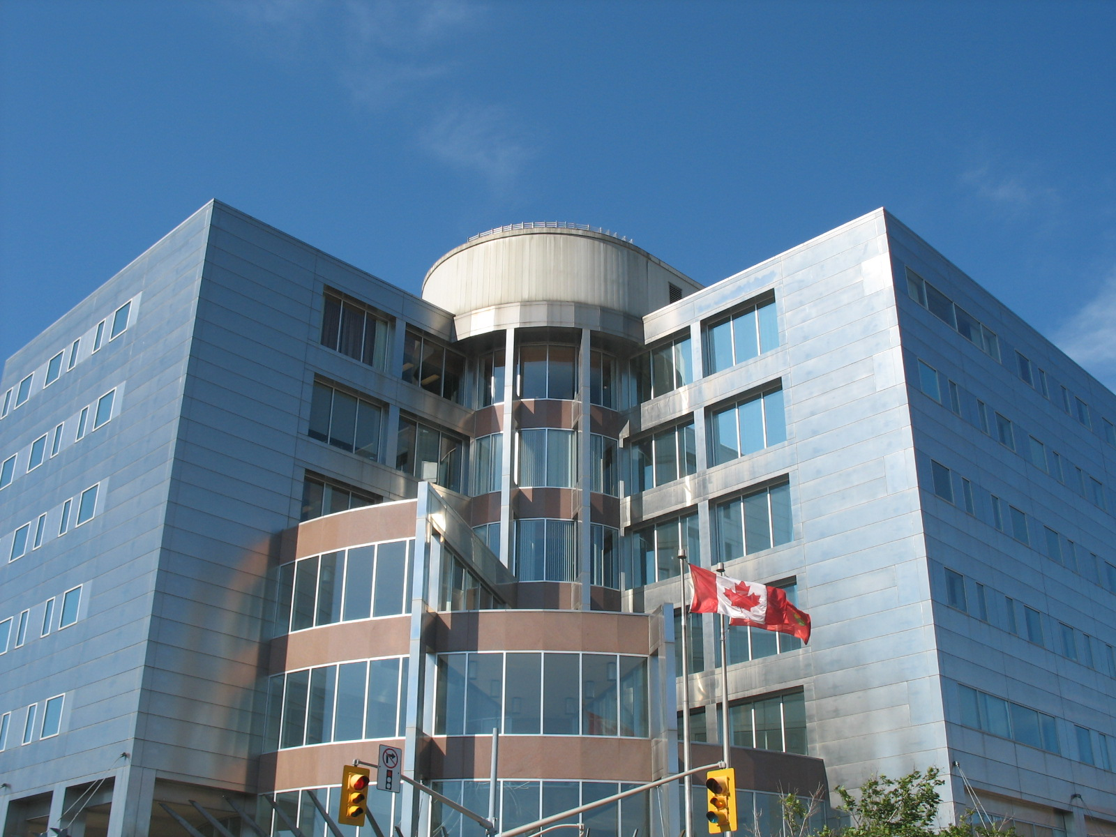 The Ministry of Northern Development, Mines and Forestry main building, located at 159 Cedar Street, Sudbury, ON.